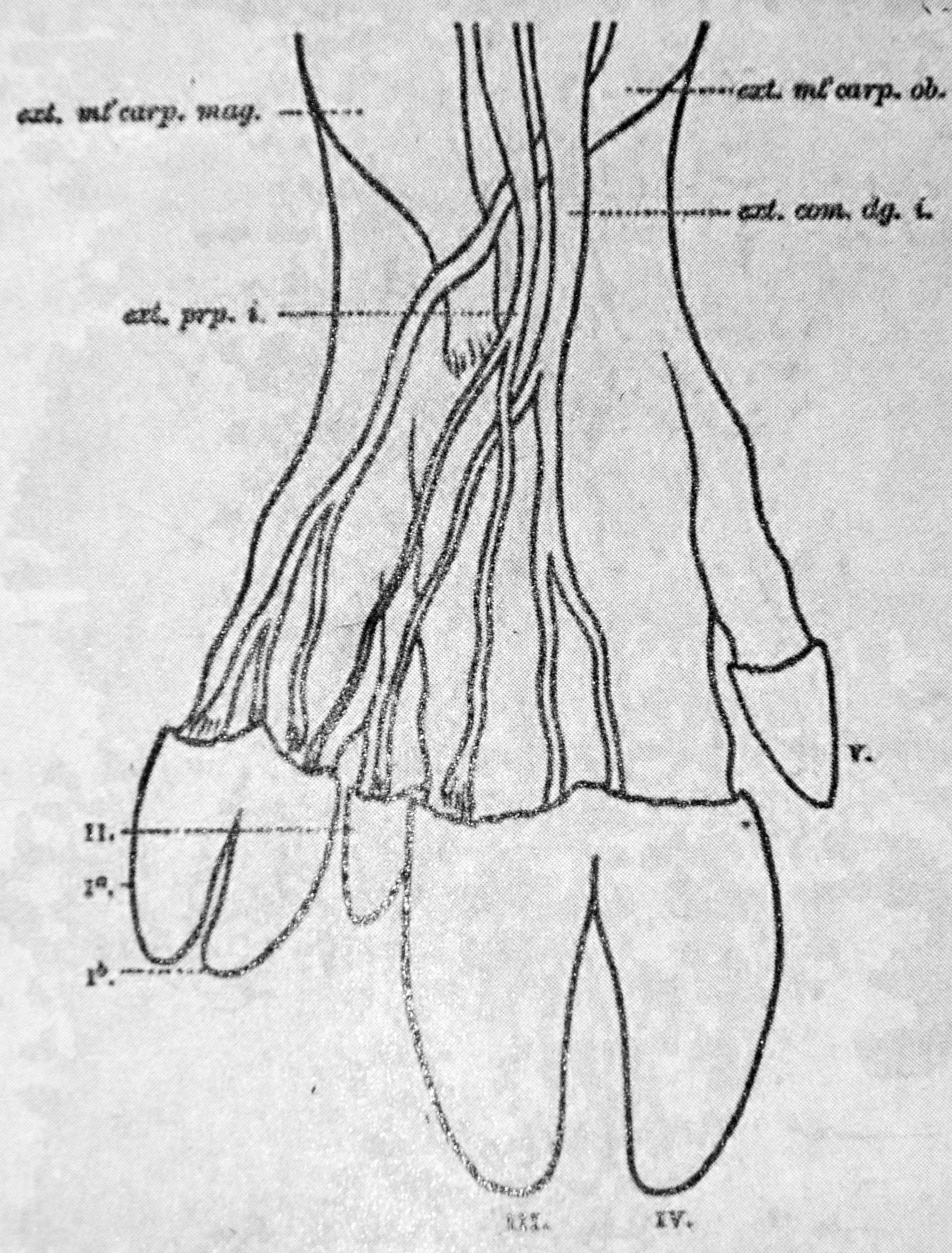 Schwein polydaktyl